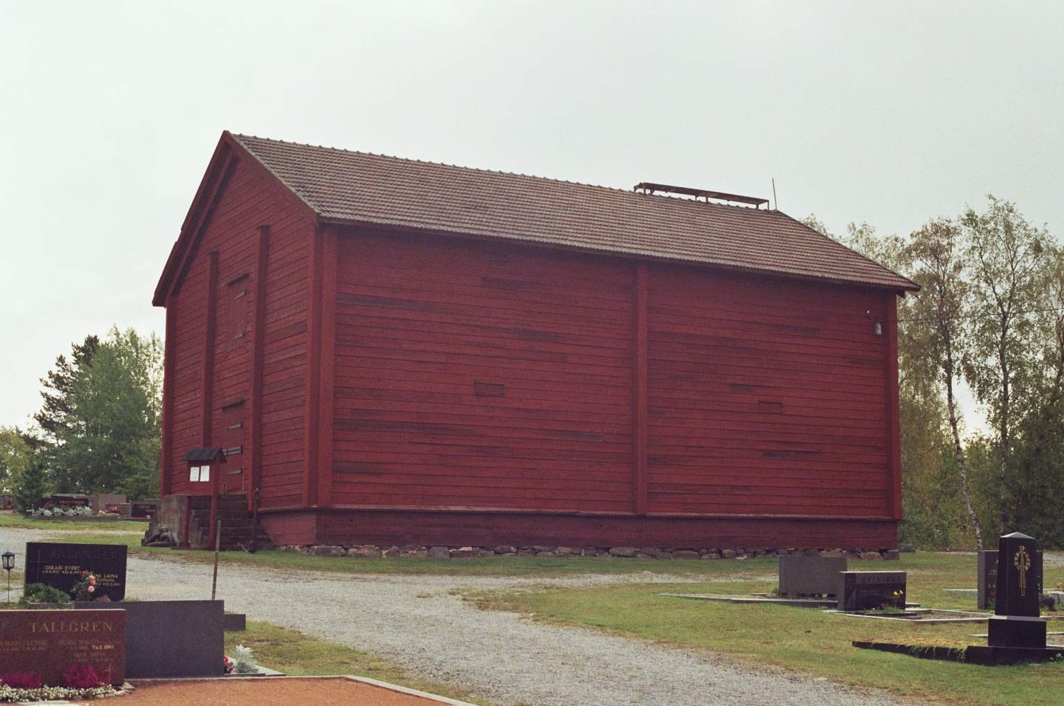 An old magazine/warehouse near the church of Alatornio in Tornio, Finland. Originally built in the middle of 1800s, the building now works as a museum.